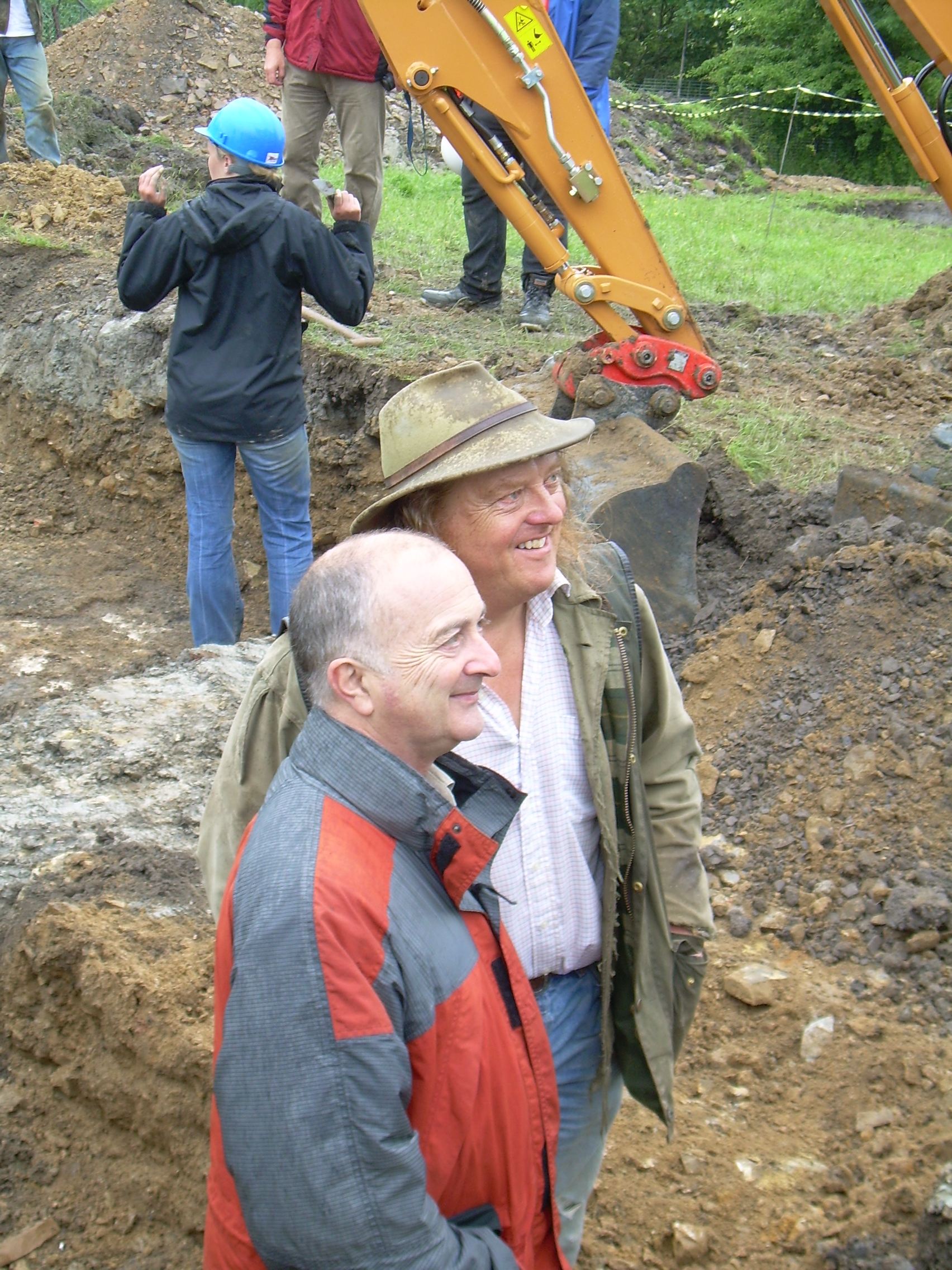 Time Team at Codnor Castle (© STEPHEN SINFIELD) Tony Robinson and Phil Harding